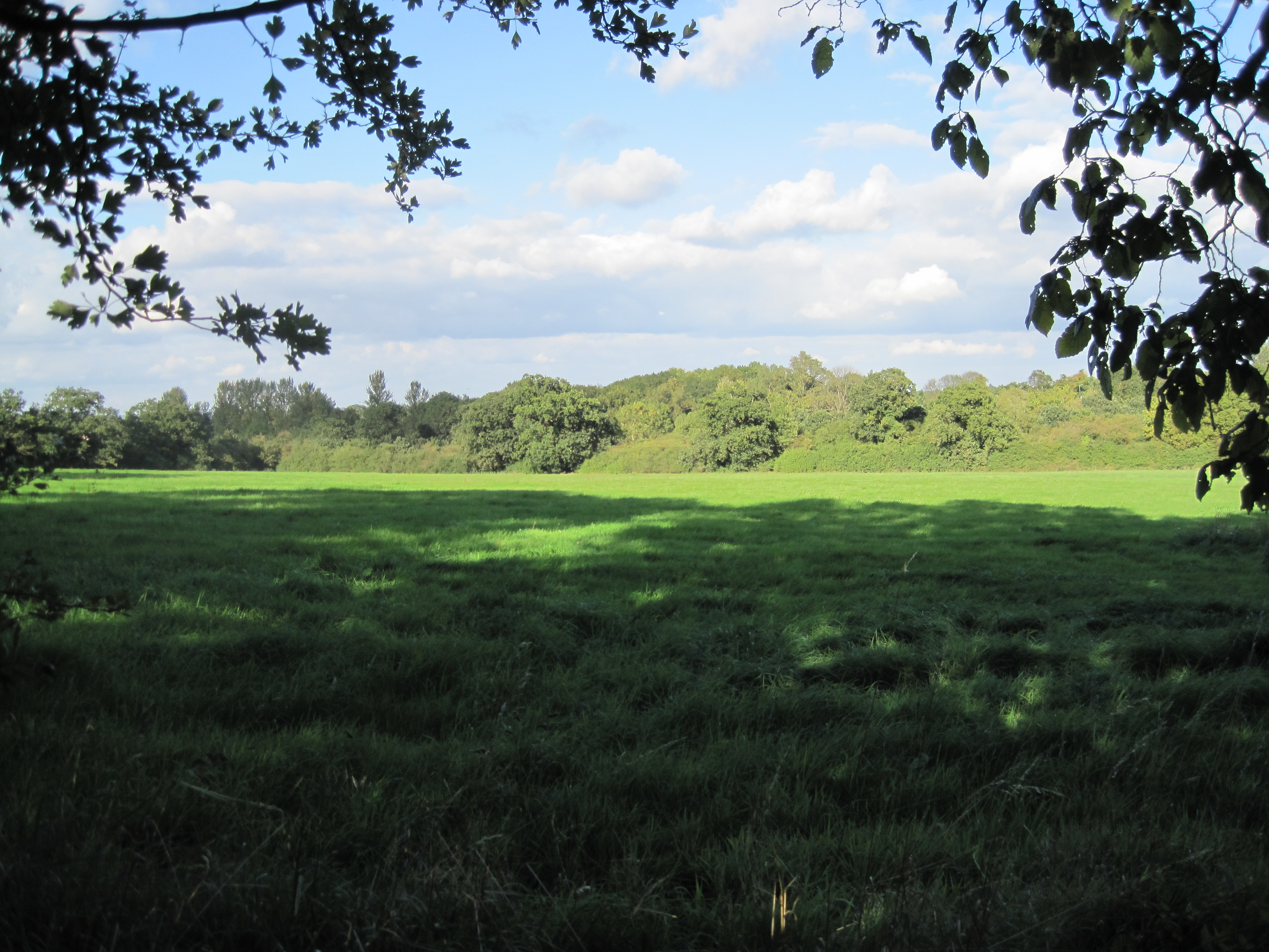 Arkley Lane pasture, nature reserve in Arkley, Barnet, London